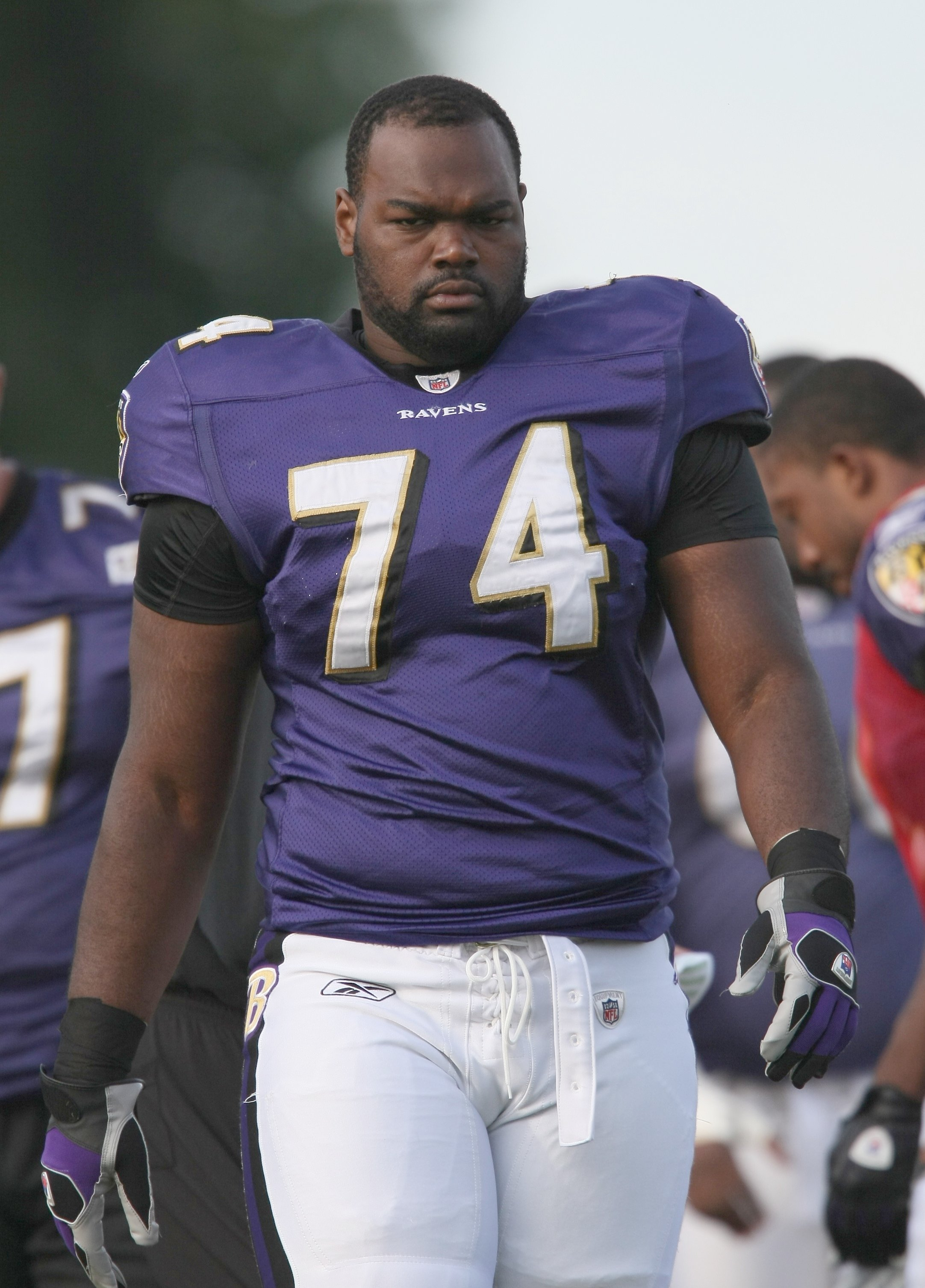 Michael Oher at Baltimore Ravens Training Camp August 5, 2009